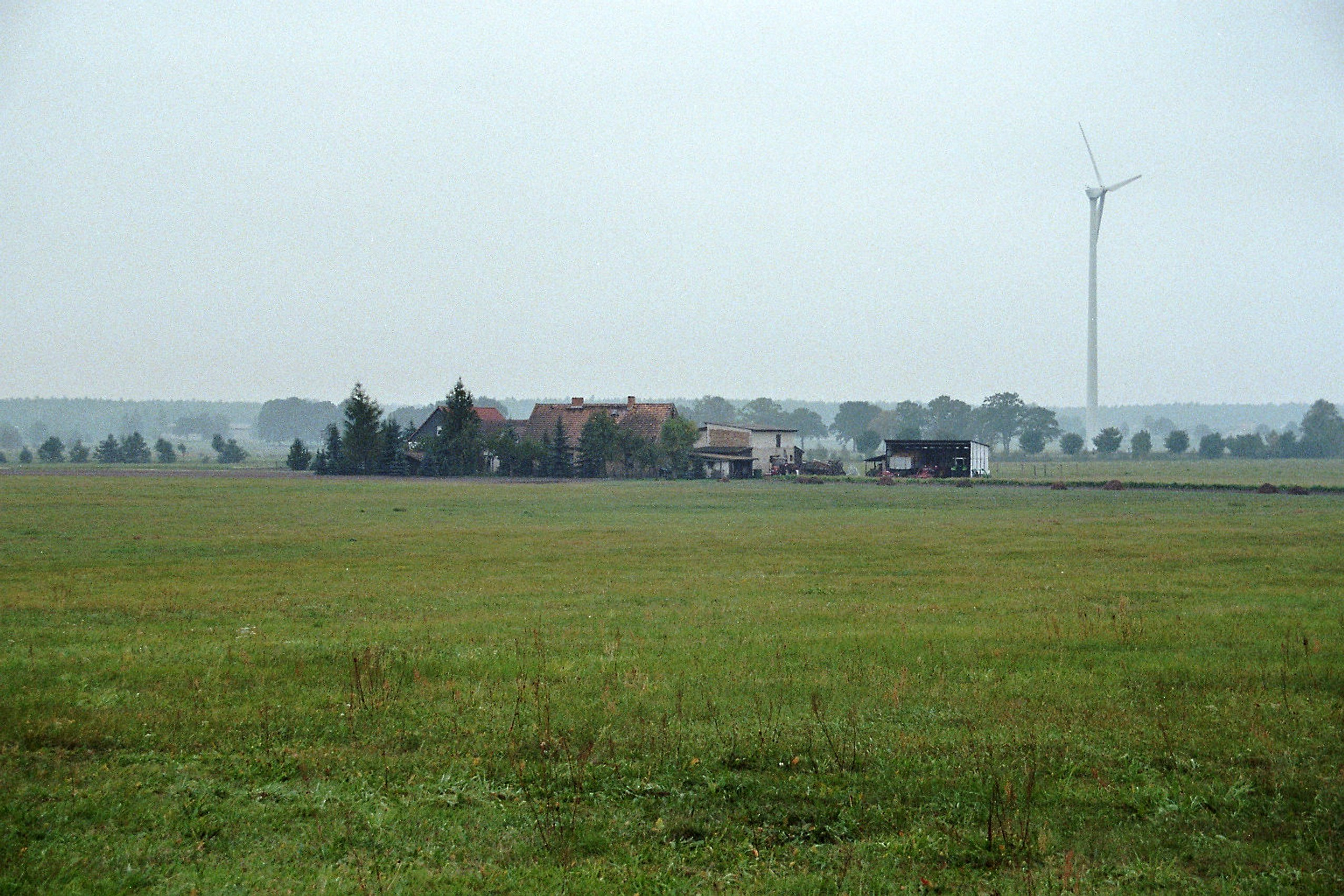 Weißkeißel, farm Grüner Weg 9